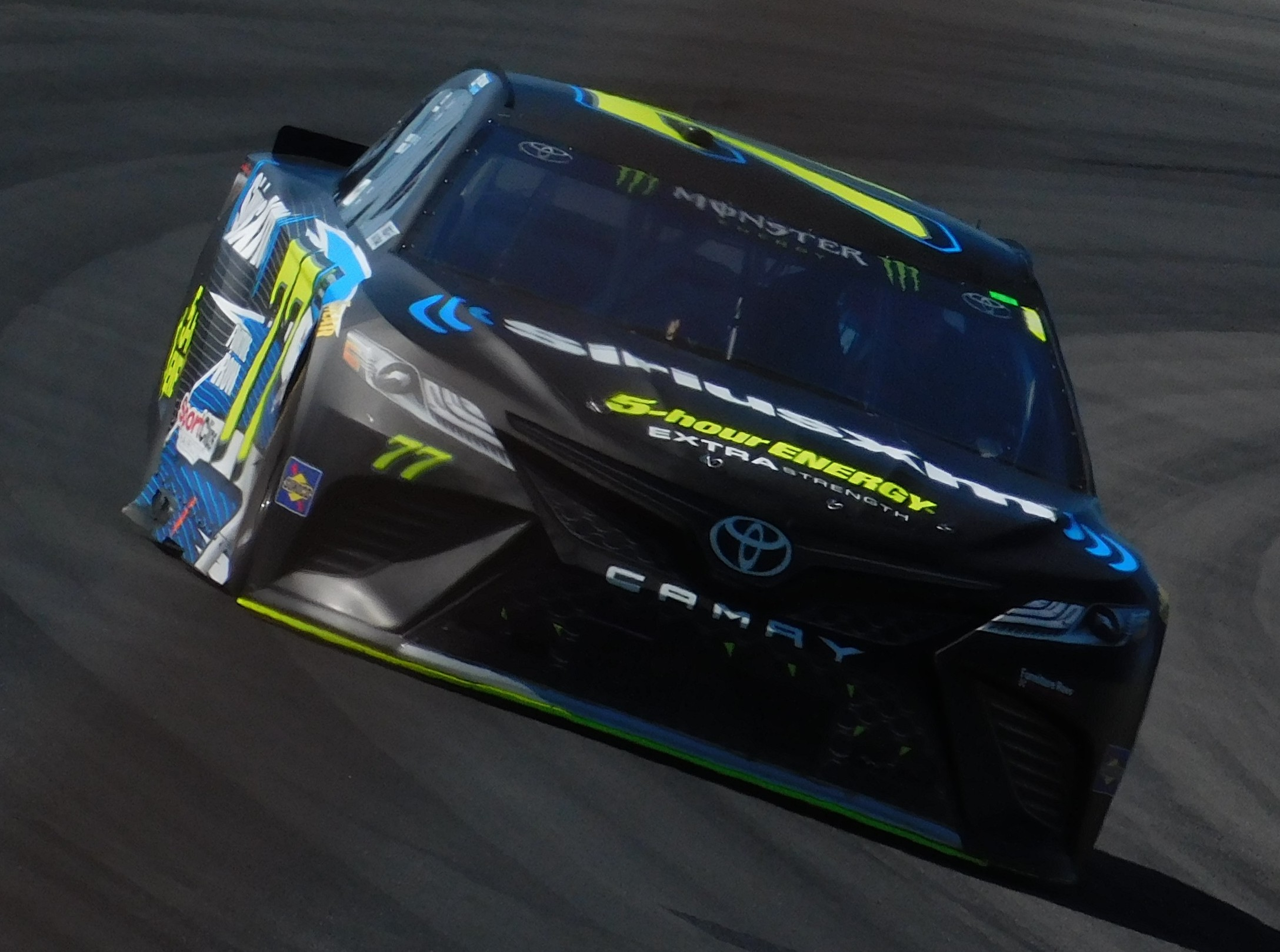 Erik Jones' No. 77 SiriusXM Toyota at Pocono Raceway in 2017